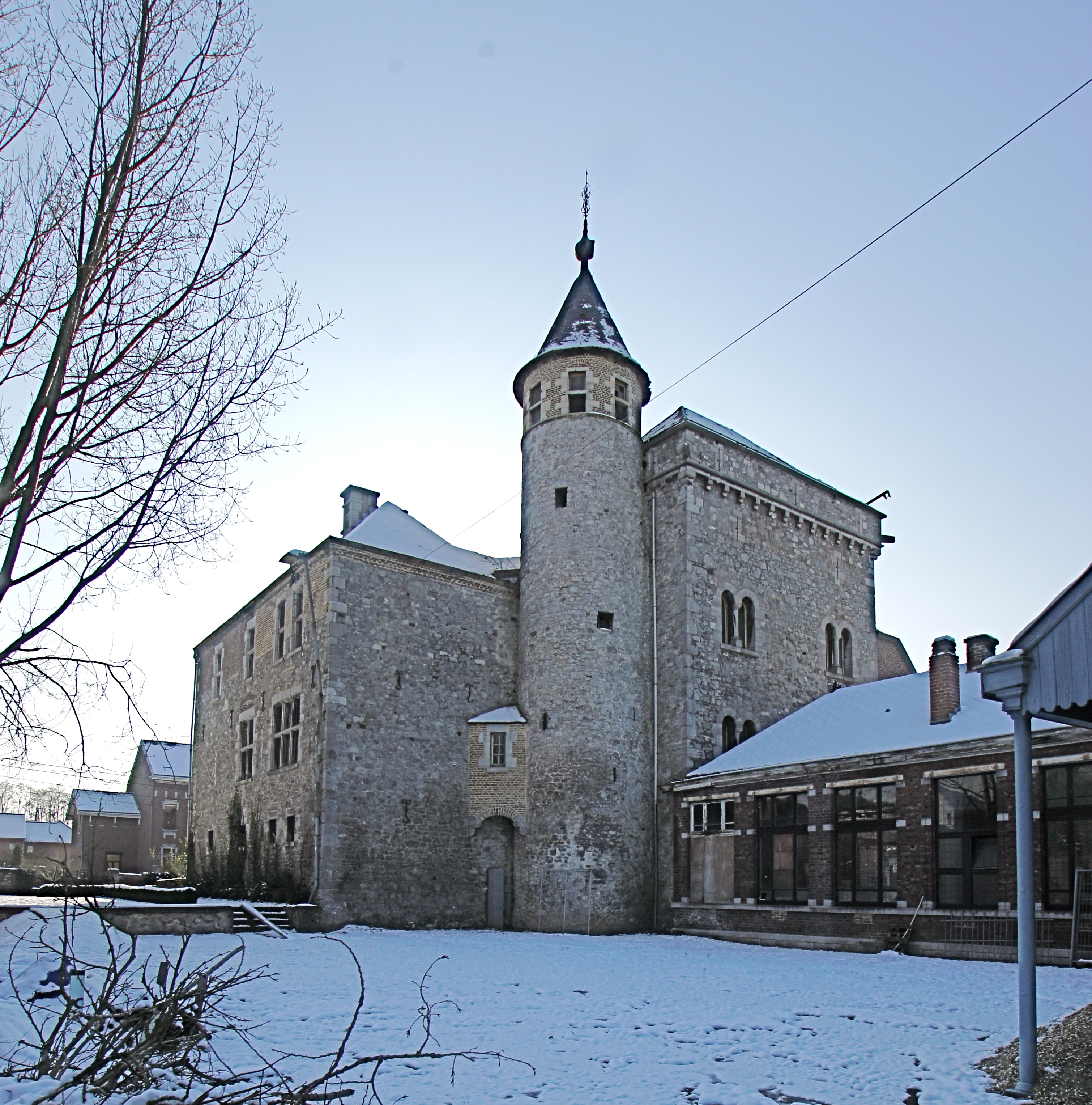 Dalhem (Berneau), Belgium: The Borcht (Castle)